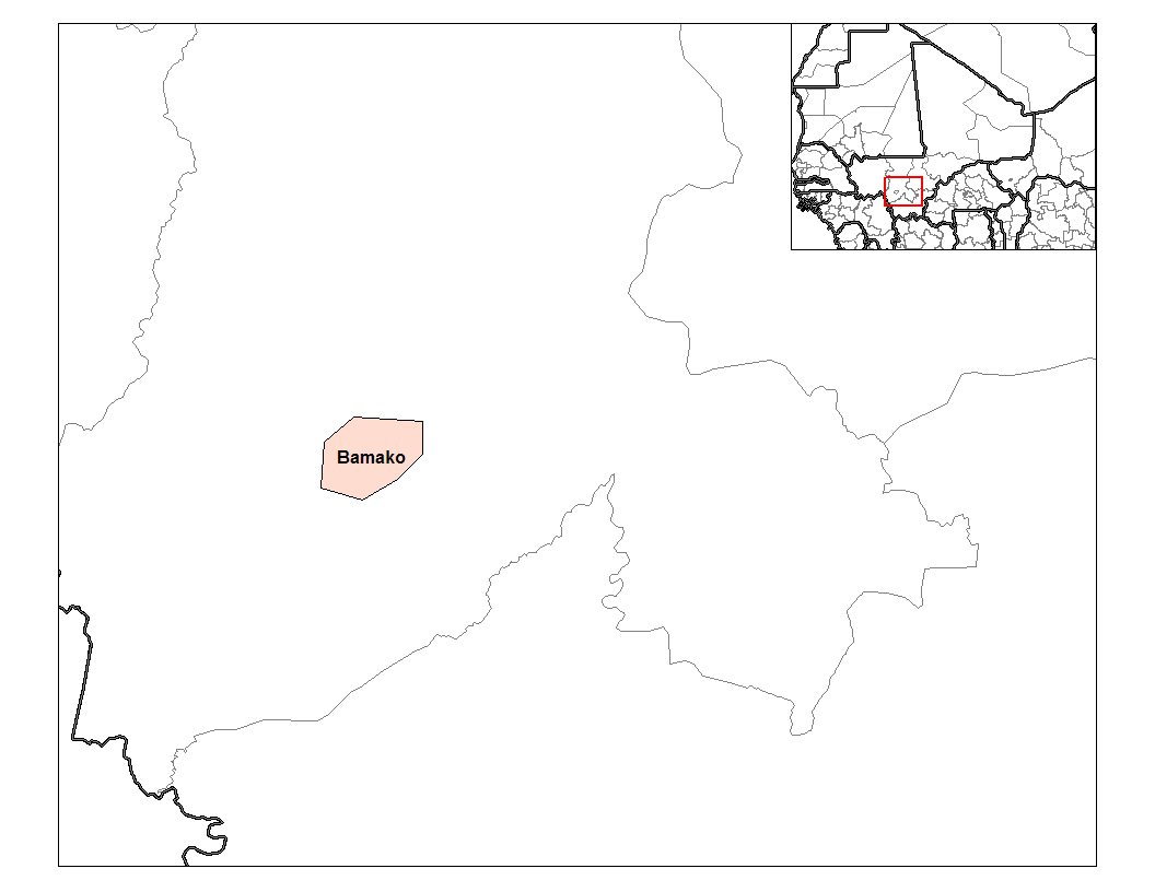 Map of the Bamako cercle of Mali. Created by Rarelibra 15:26, 18 September 2006 (UTC) for public domain use, using MapInfo Professional v8.5 and various mapping resources.